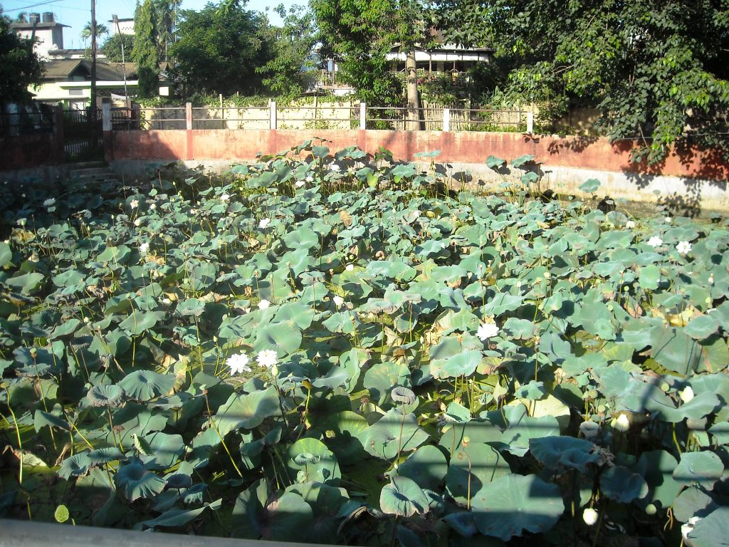 A tank situated in Jorhat city. In 1818 AD, Badan Barphukan was murdered by Rupsingh Bangal when he was going to take bath. For this act, Rupsingh was rewarded with some money which he spent in excavating this tank.